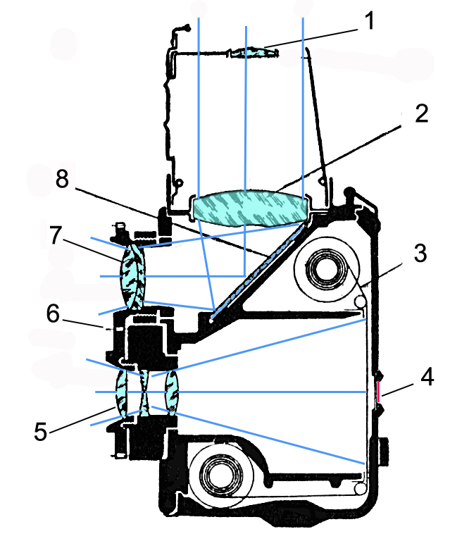 USSR twin-Lens Reflex Camera “Lubitel-2” 1955